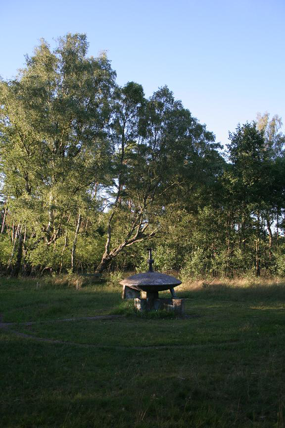 This picture shows the UFO-Memorial Ängelholm in Sweden.